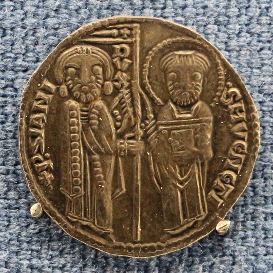 coins in Palazzo Blu (Pisa)